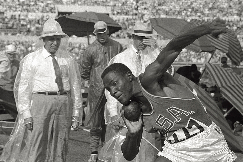 Rafer Johnson at the Rome Olympics